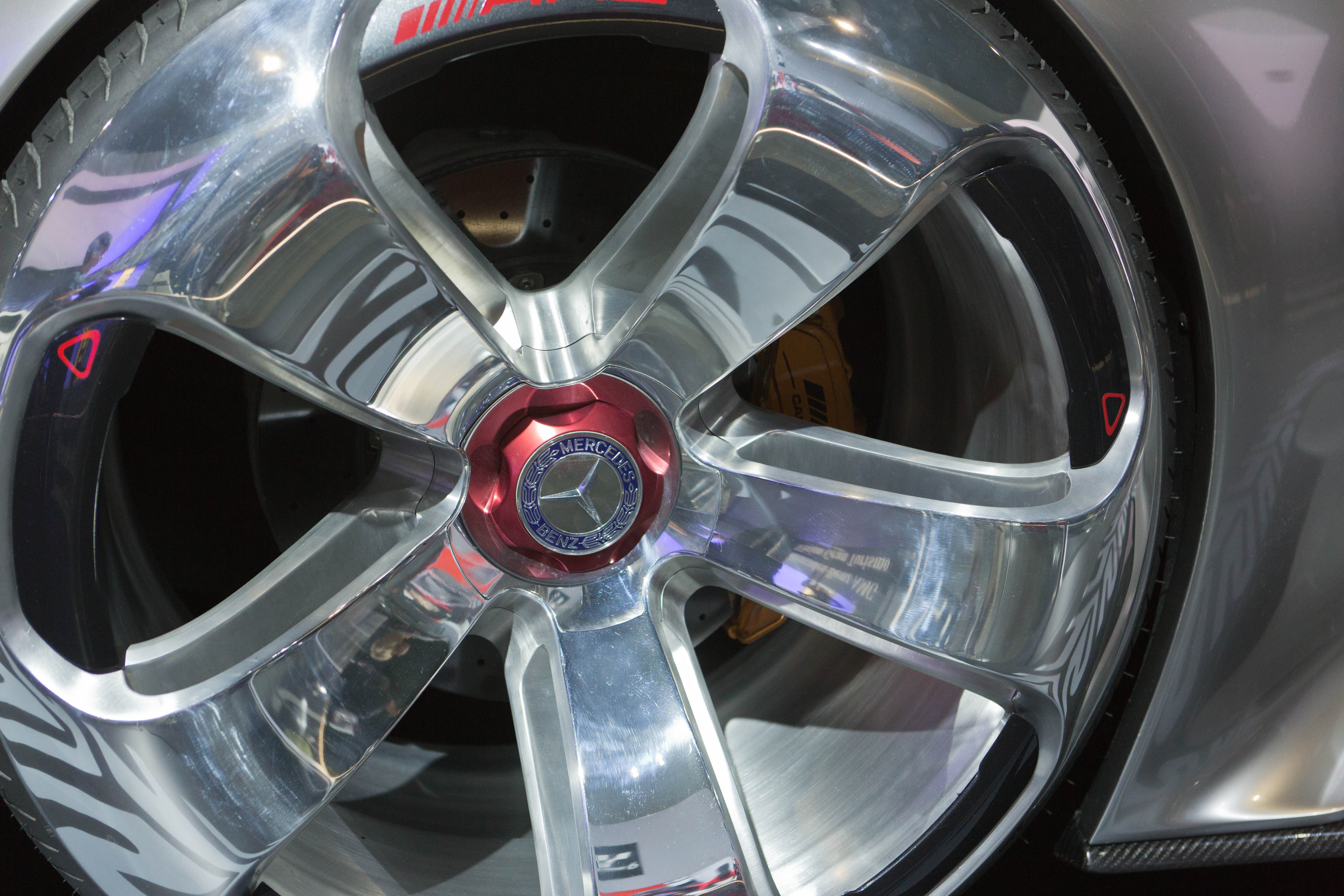 Mercedes-Benz AMG Vision Gran Turismo wheels